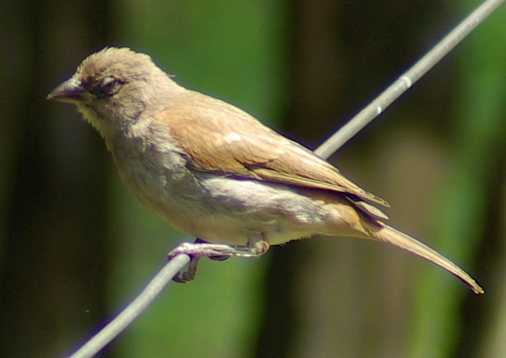 Adult Swahili Sparrow, Passer suahelicus (or Passer griseus suahelicus), at a bird feeder at Masai Mara National Reserve, Kenya